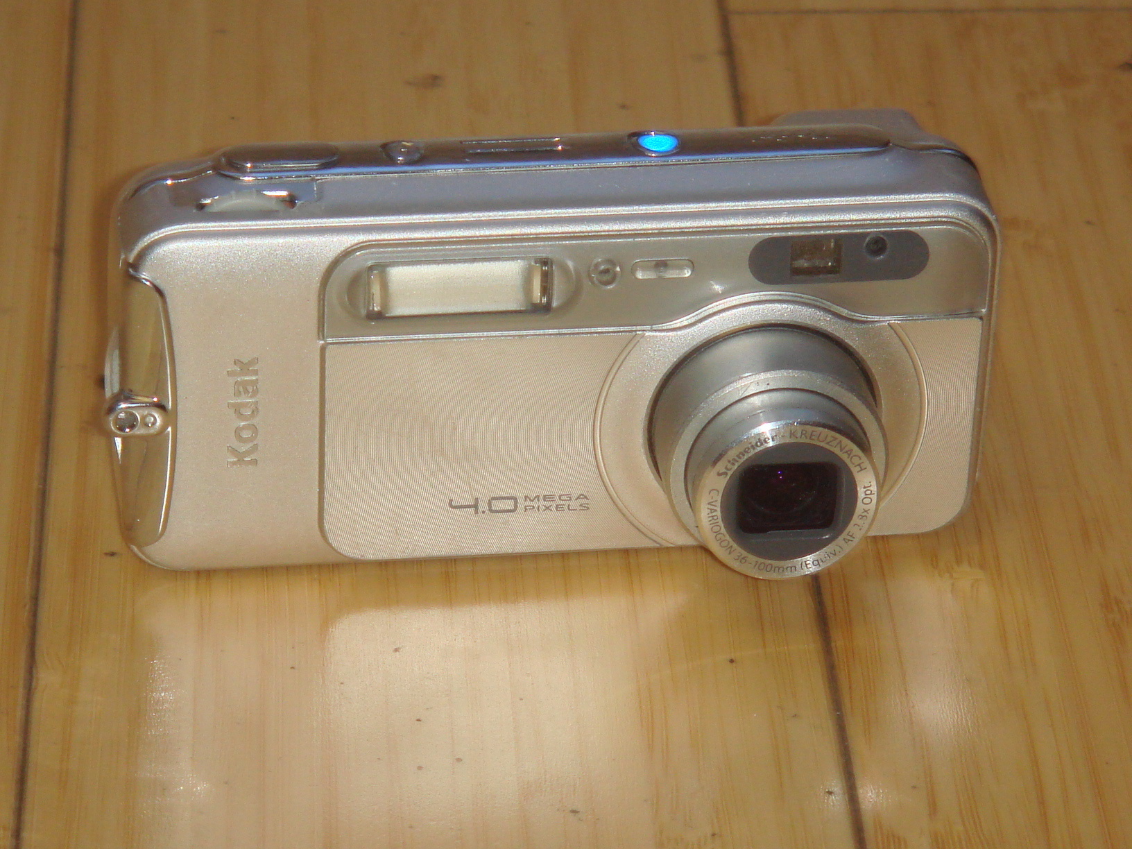 This is a Kodak EasyShare LS743 digital camera, and is from 2004.[1]